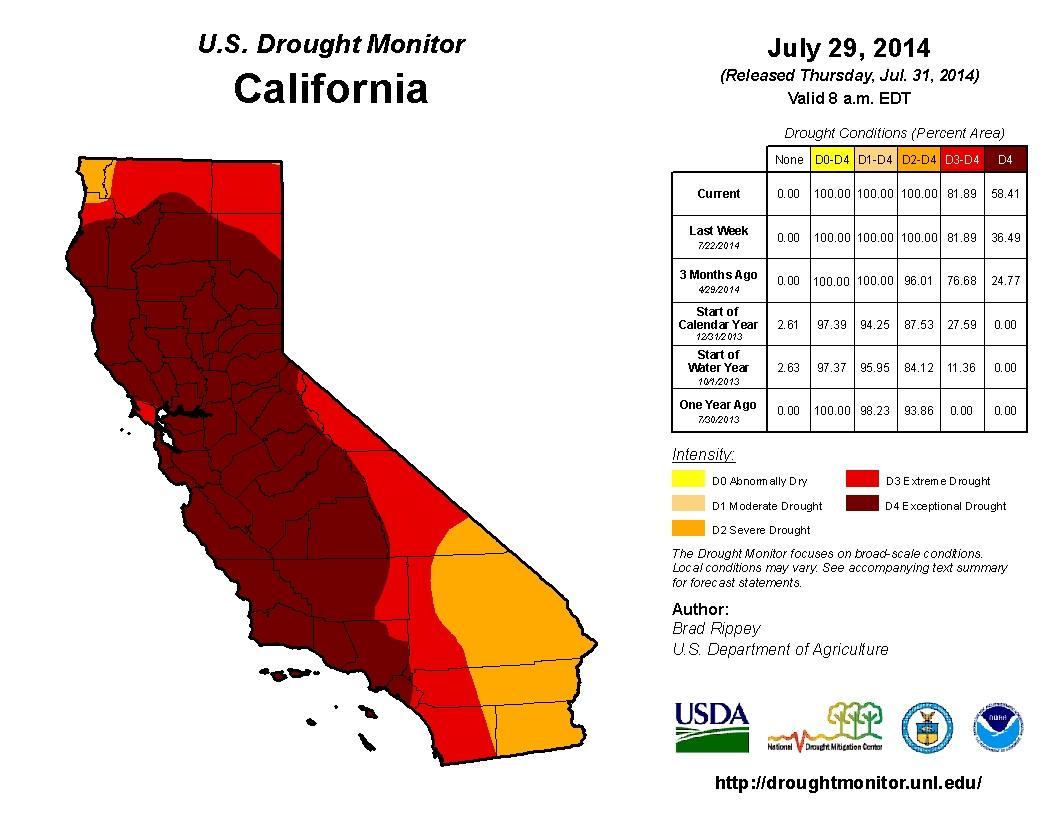 Released July 31, 2014.